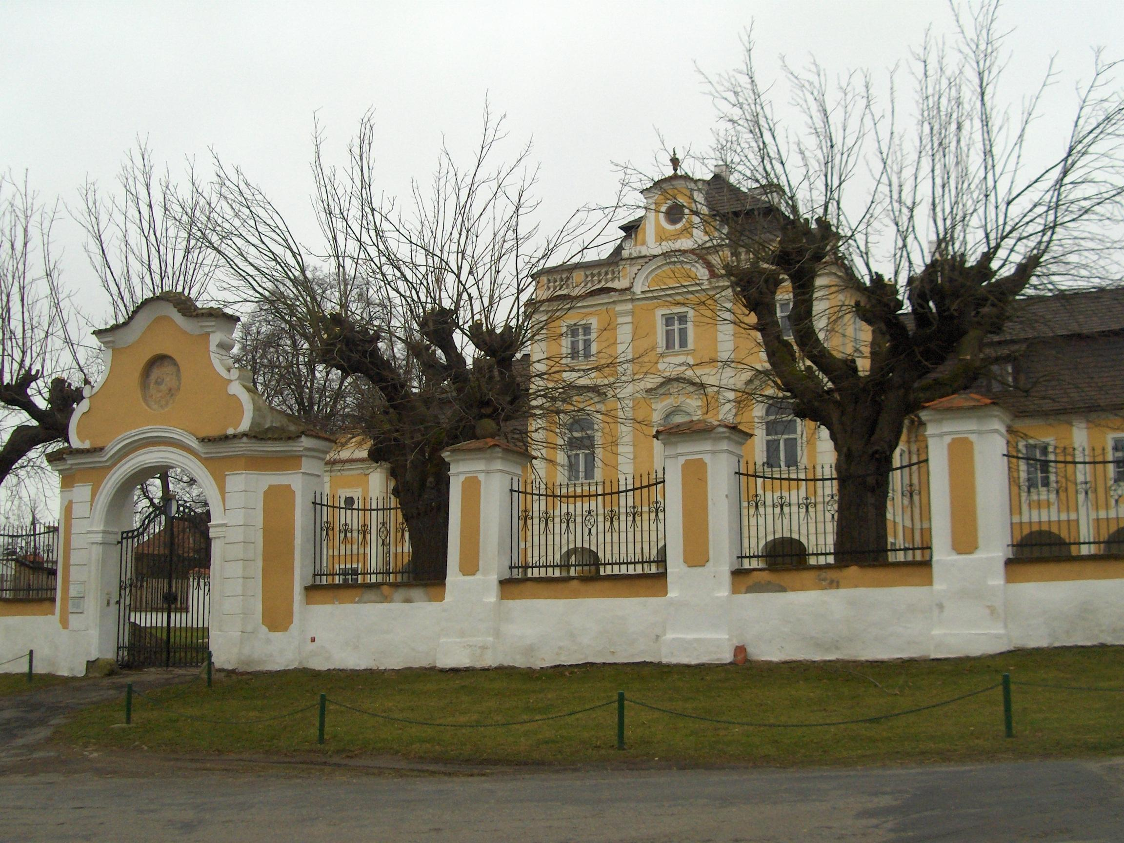 Baroque chateau in Vilémov (Havlíčkův Brod District), Czech Republic.